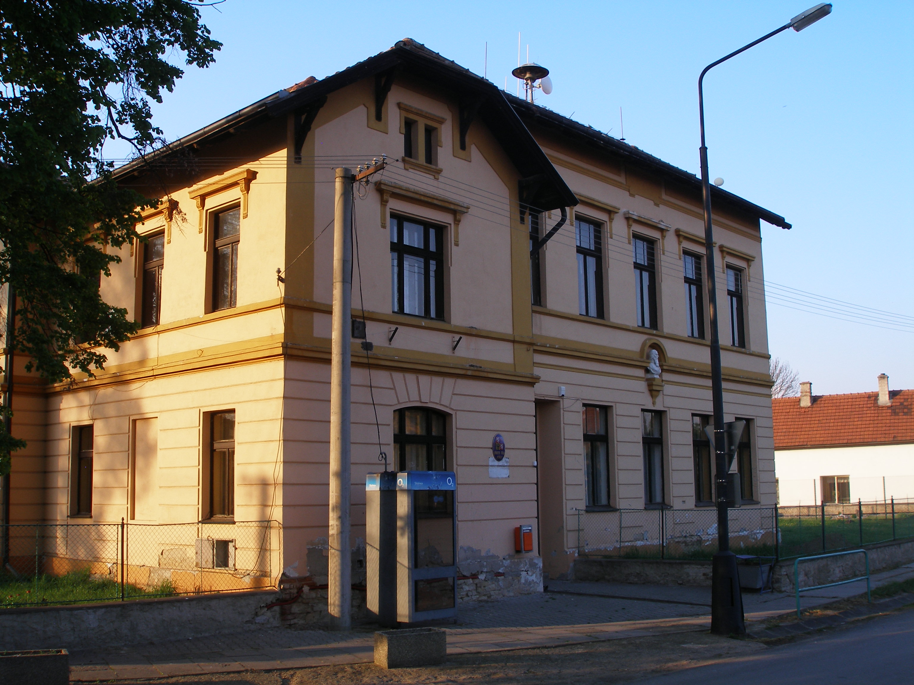 Municipal Office in Býkev.